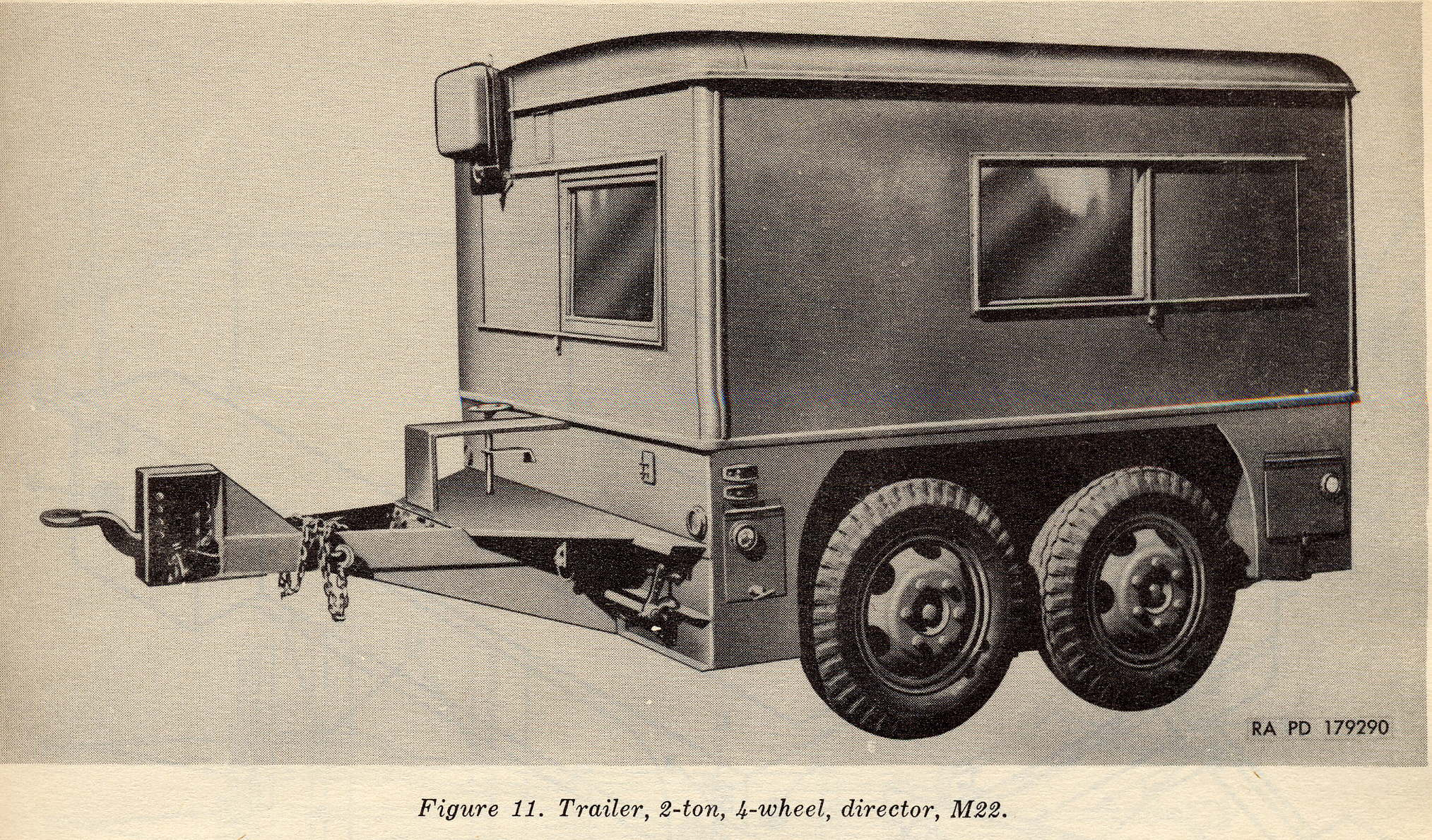 M22 Directors trailer